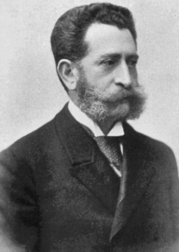 A commercial agent of the Ministry of Finance of the Russian Empire in Paris, Arthur Rafalovich.